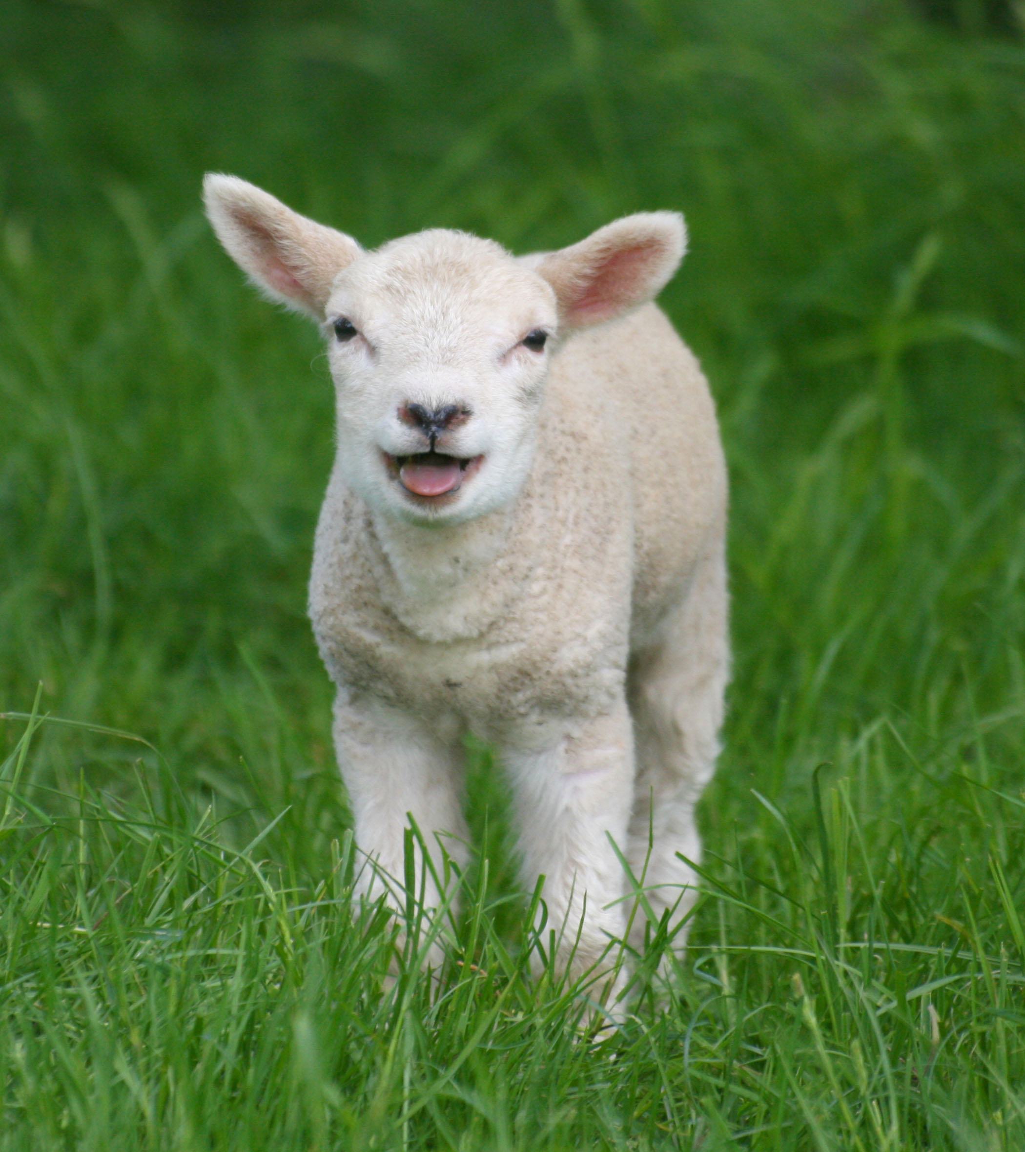 Lamb, Stodmarsh, Kent, England